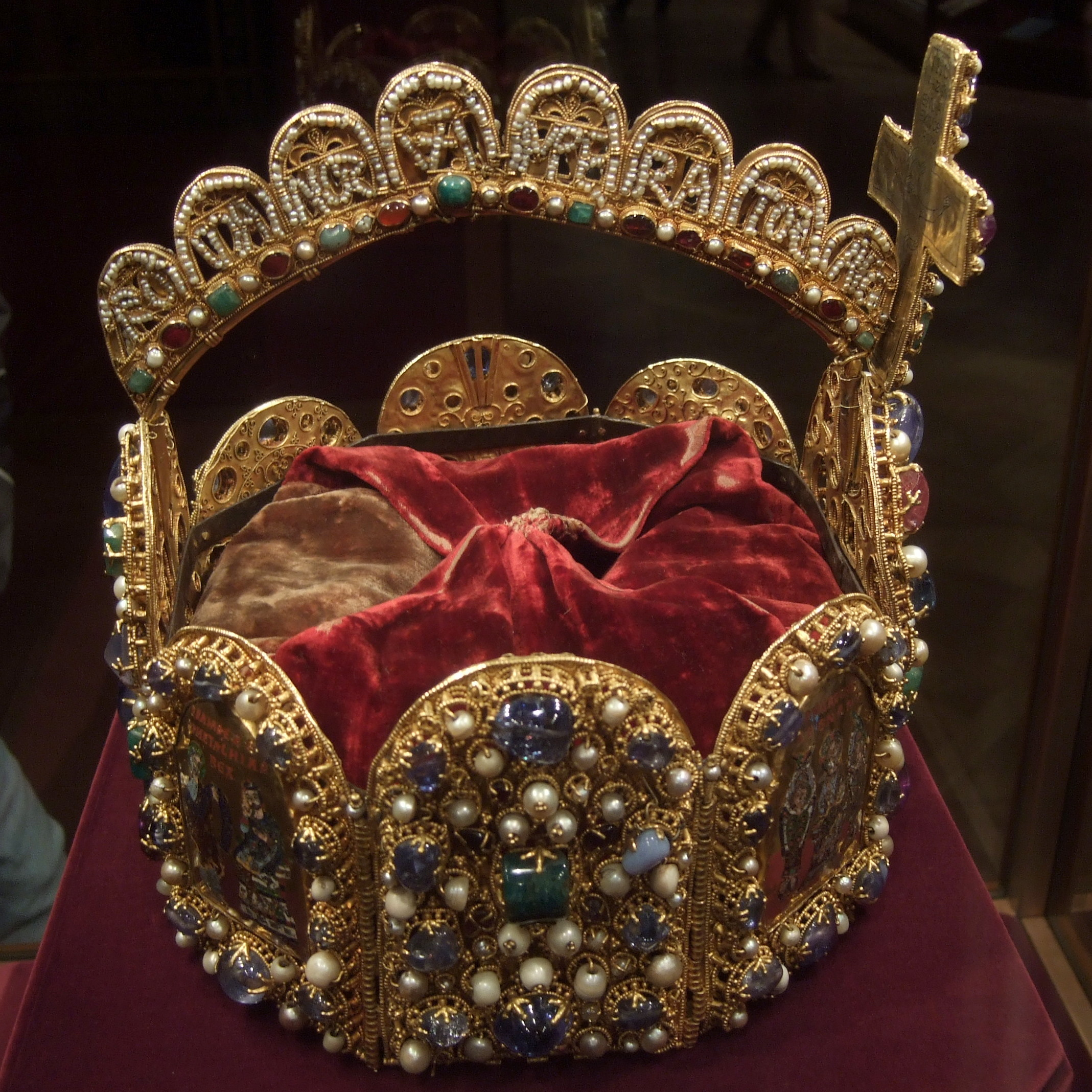 Imperial Crown of the Holy Roman Empire in Vienna. Side view.